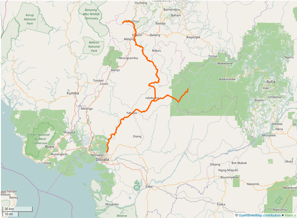 Wouri River in Cameroon, with OSM. This map may be incomplete, and may contain errors. Don't rely solely on it for navigation.